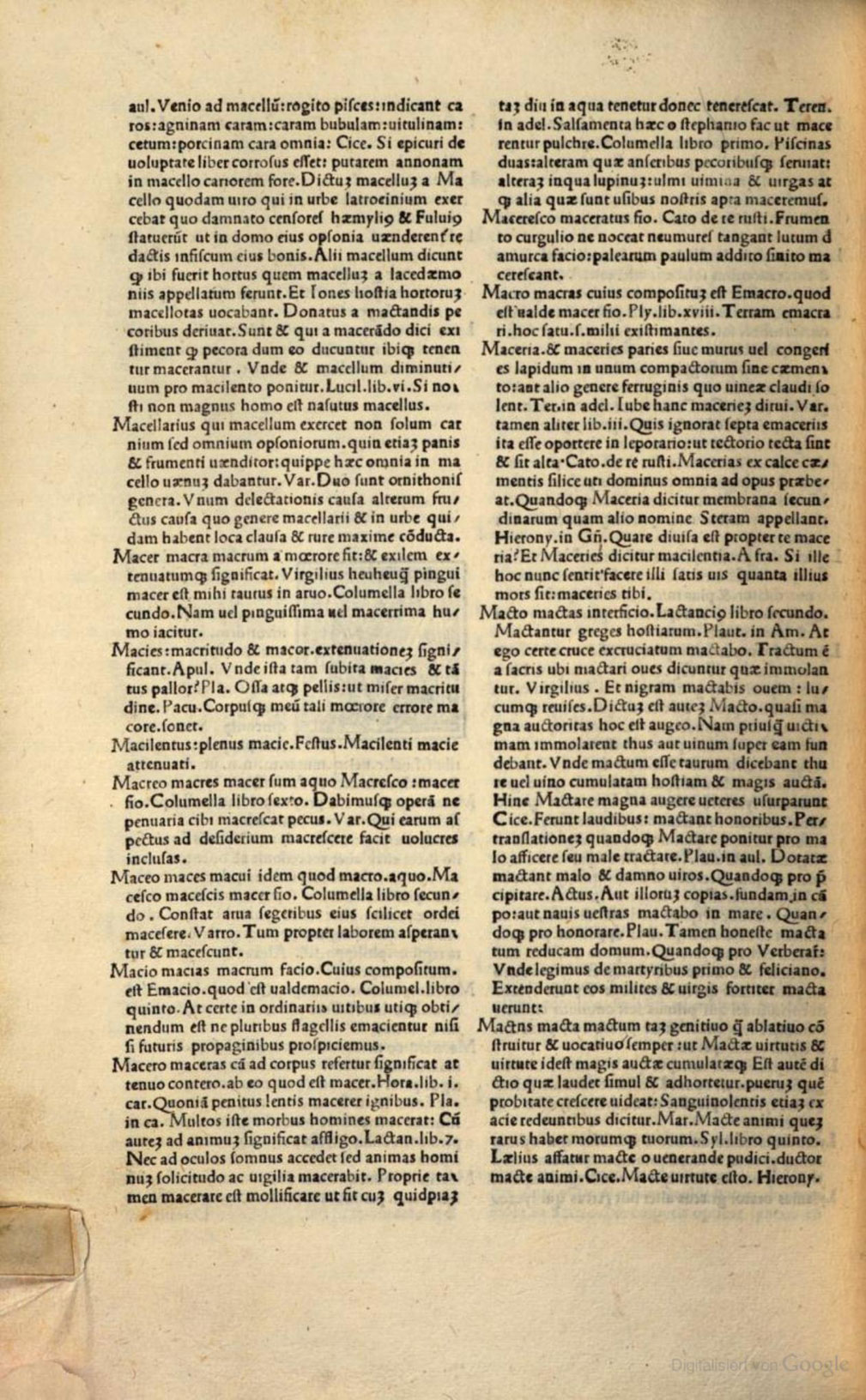 Page from Calepio's Dictionarium, 1502